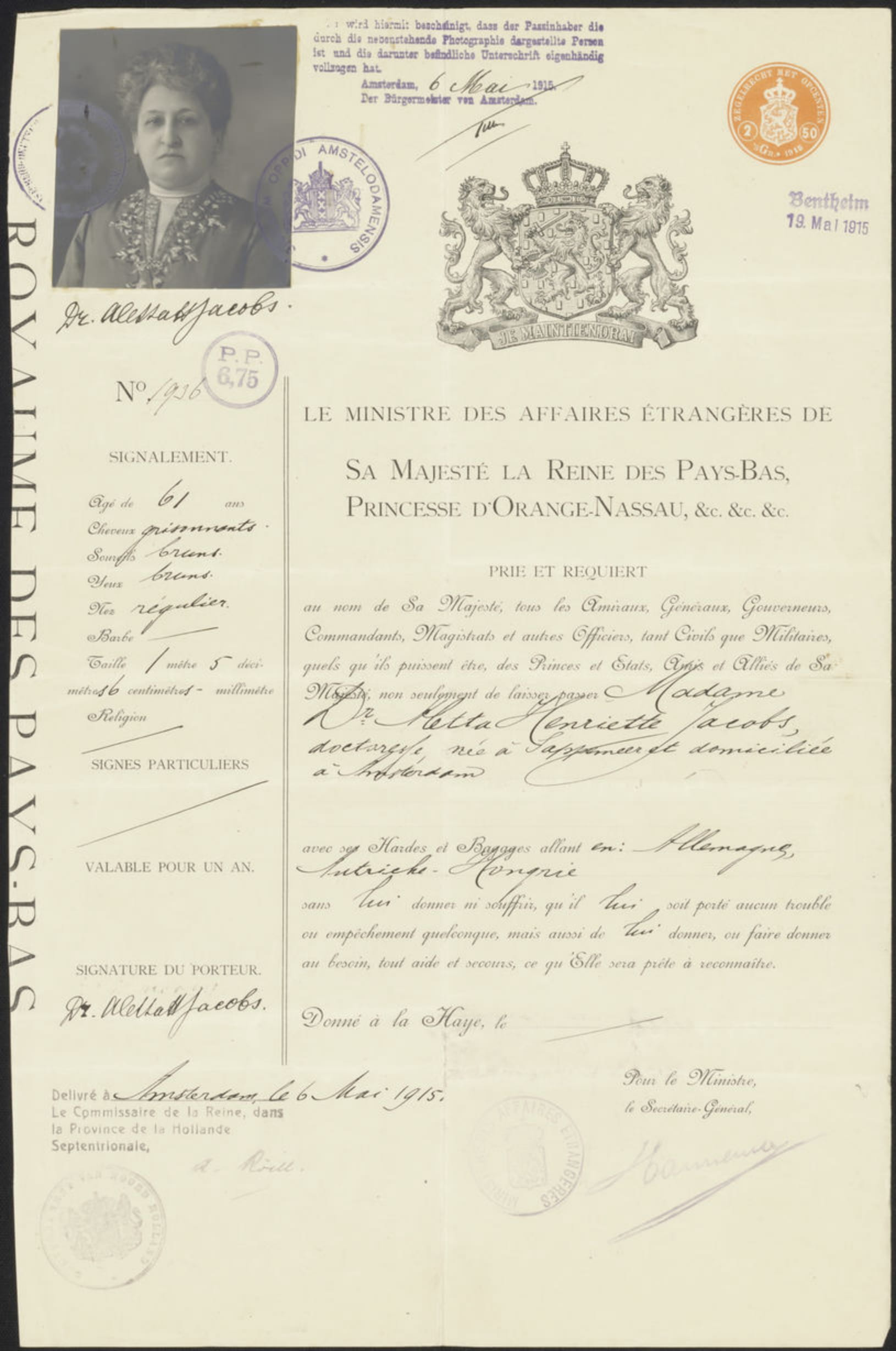 Page 1 of the visa for Germany and Austria-Hungaria, issued in Amsterdam, with passport photo and signature. Related to the Peace Mission 1915